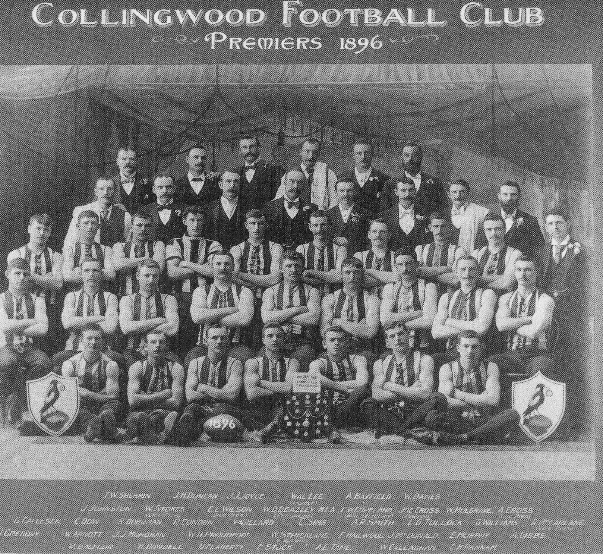 The Colingwood Football Club team that won the Victoria Football Association (VFA) Premiership.